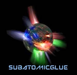 subatomicglue band picture.